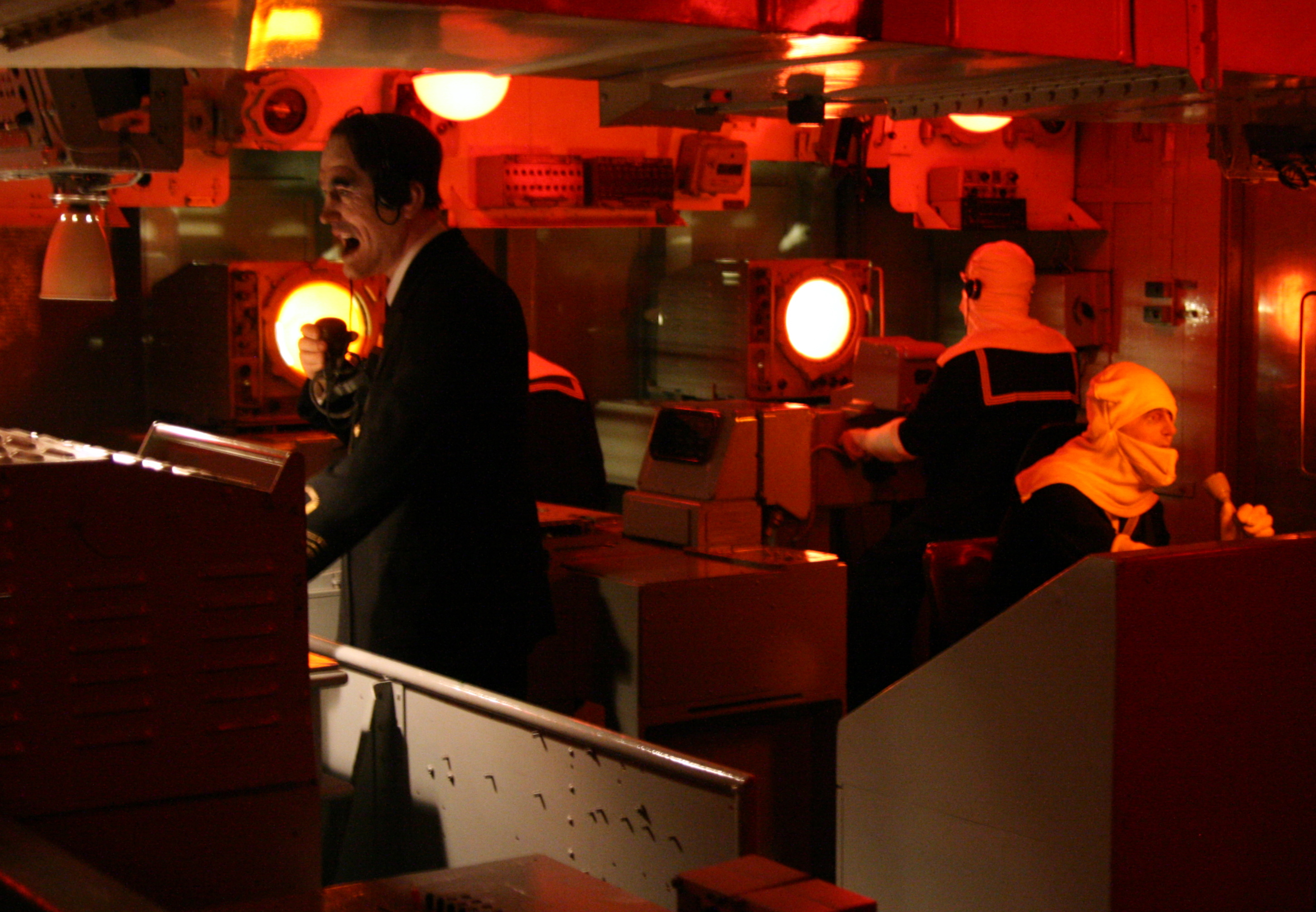 Operations room on HMS Belfast, as it looked during the battle of North Cape.